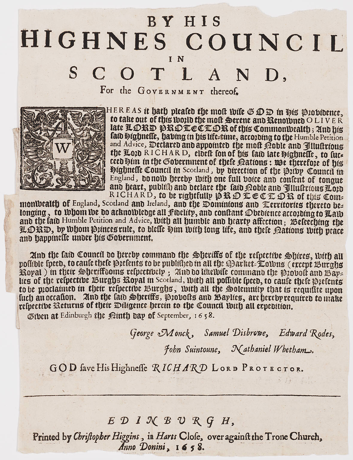 "By His Highnes Council in Scotland, for the government thereof : whereas it hath pleased ... God ... to take out of this world ... Oliver late lord protector ... we ... now ... declare ... Lord Richard, to be ... protector," broadside issued by the Edinburgh (Scotland) Town Council, signed by George Monck and others, in honour of Richard Cromwell, son of Oliver. Courtesy of the General Collection, Beinecke Rare Book and Manuscript Library, Yale University, New Haven, Connecticut.